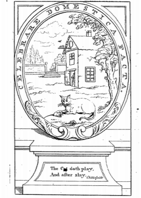 Image from An Essay on the Art of Ingeniously Tormenting